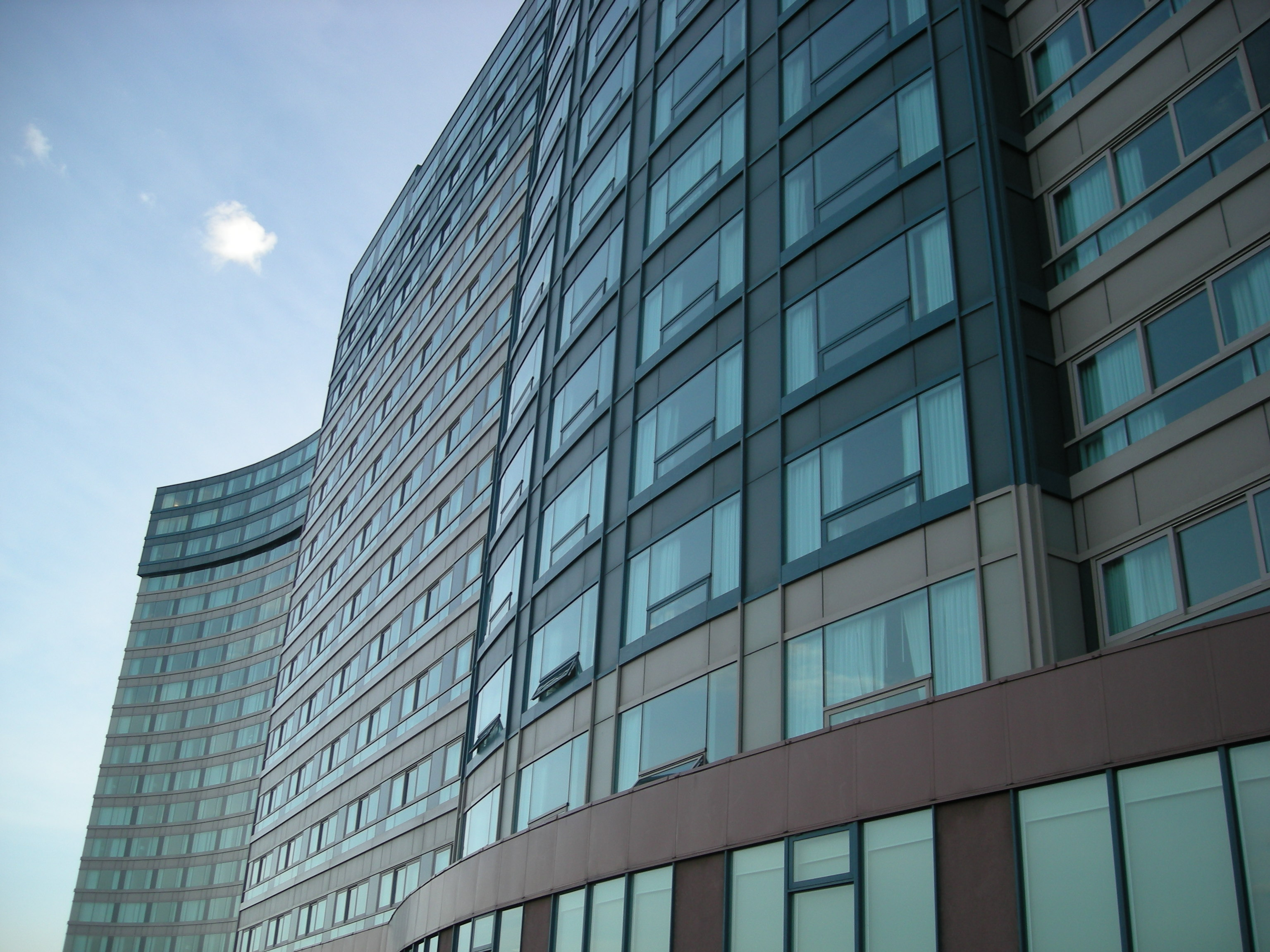 The Marriott Gateway on the Falls Hotel in Niagara Falls, Ontario (Canada).